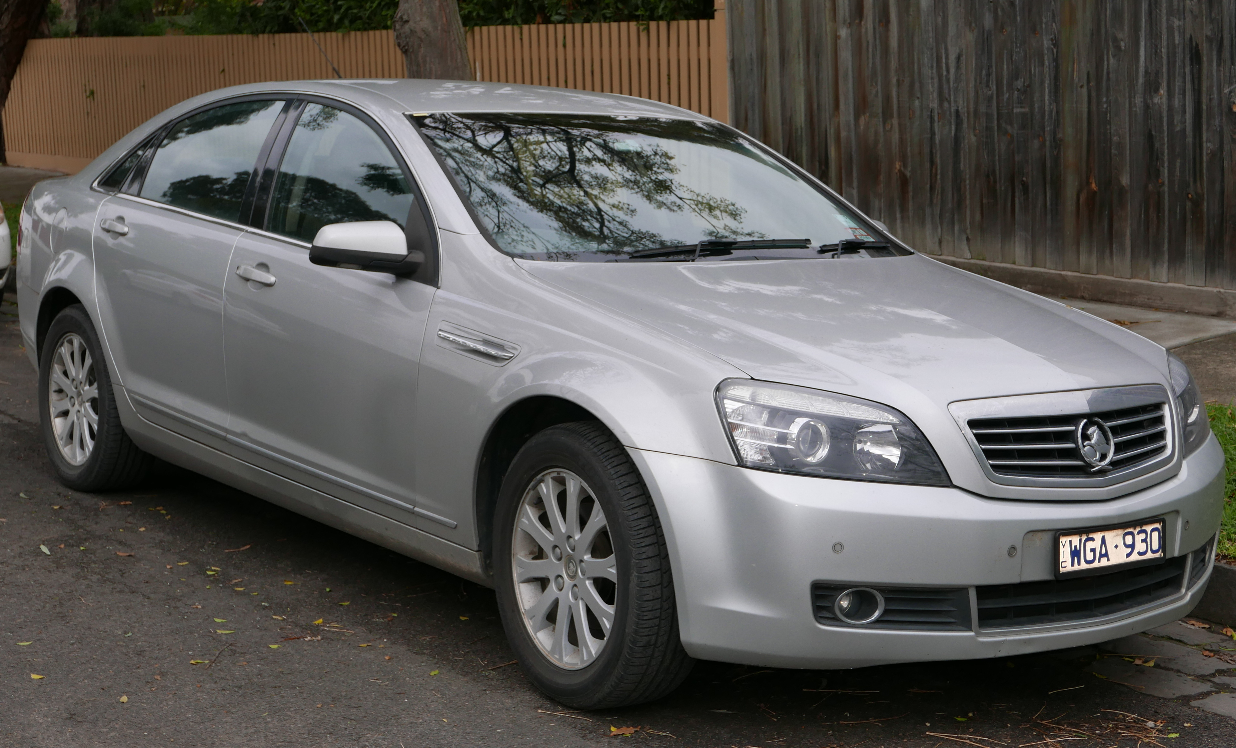 2007 Holden Statesman (WM MY08) sedan. Photographed in Alphington, Victoria, Australia. Vehicle registration enquiry resultsJurisdictionVictoriaRegistrationWGA930Chassis code6G1MY55728L954882Engine codeLY7071480115Compliance date2007-05Year of manufacture2008 (not a typo)